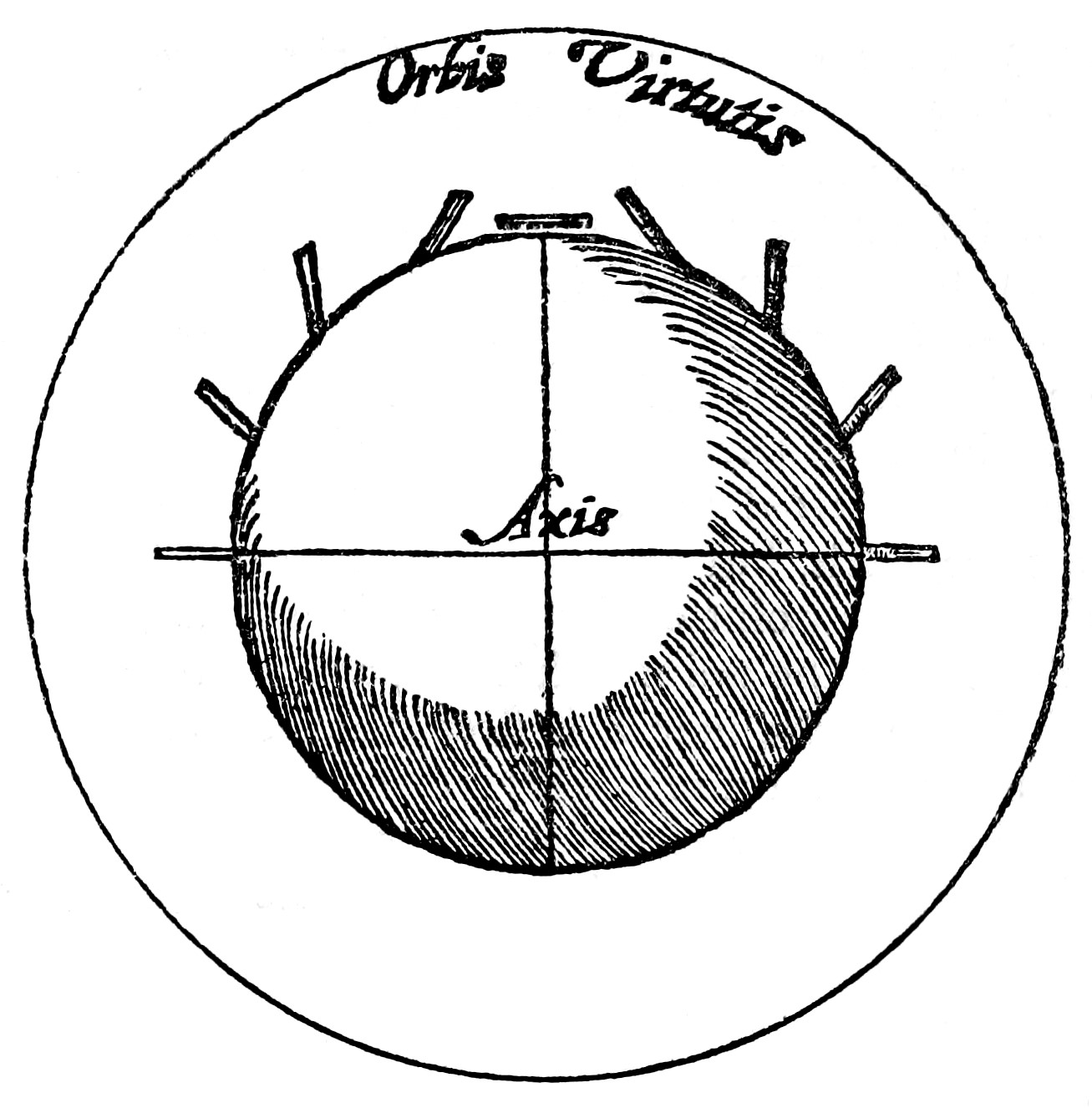 Illustration from De Magnete, etc. by William Gilbert (1600, translated 1900), showing iron wires standing on a terrella